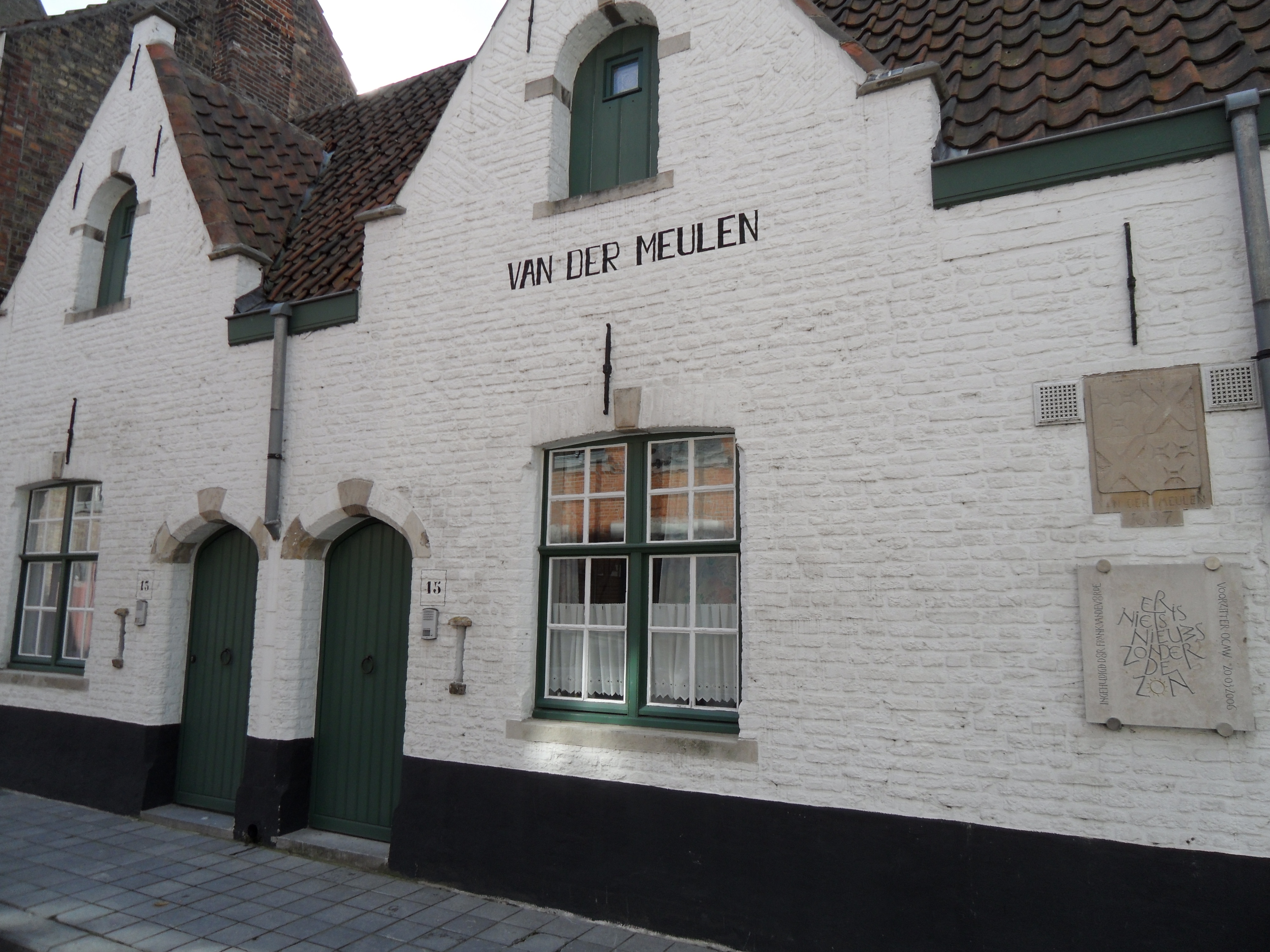 Greinschuurstraat